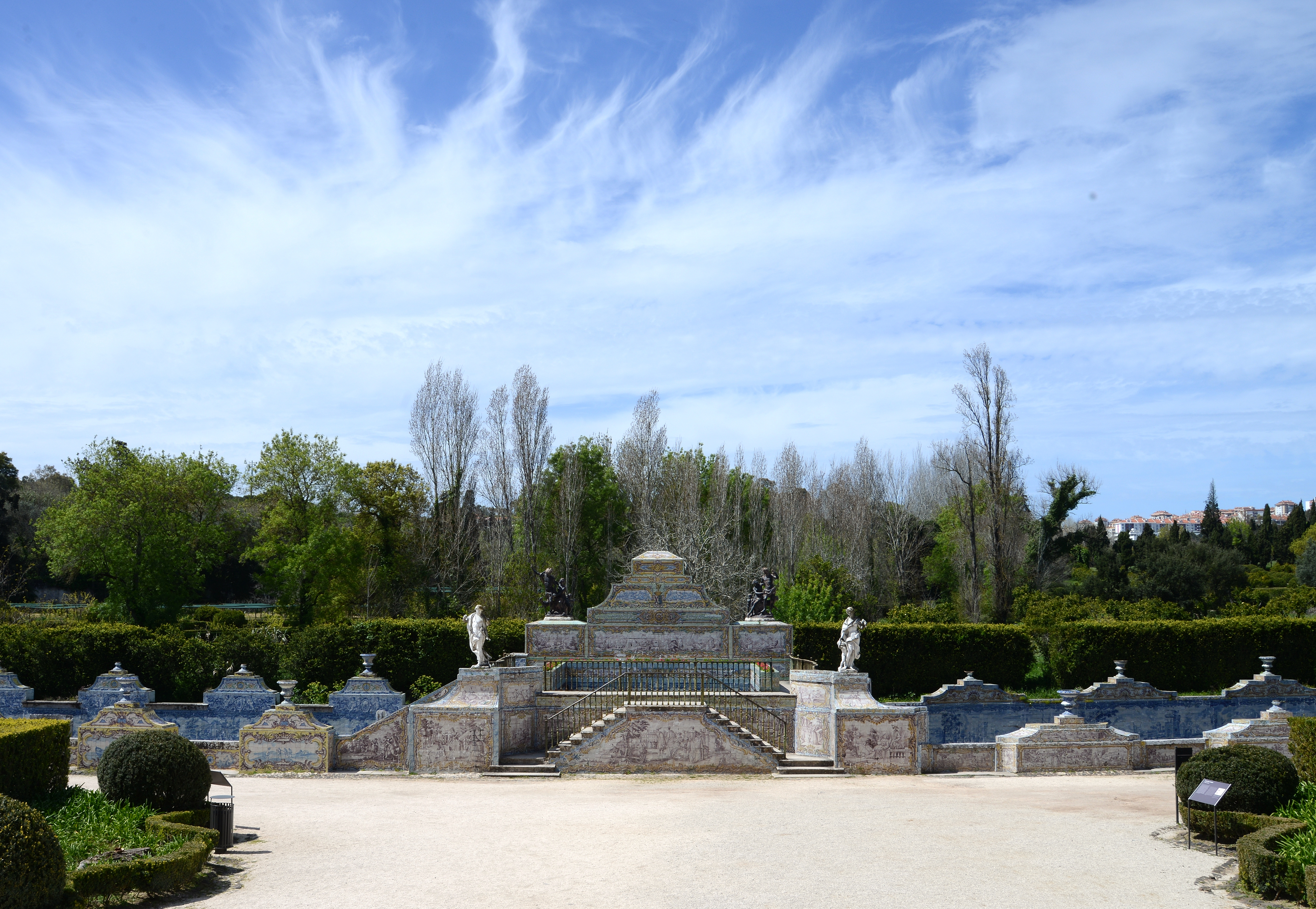 Canal dos Azulejos (Channel of the Tiles) in the Gardens of the Palace of Queluz, Portugal